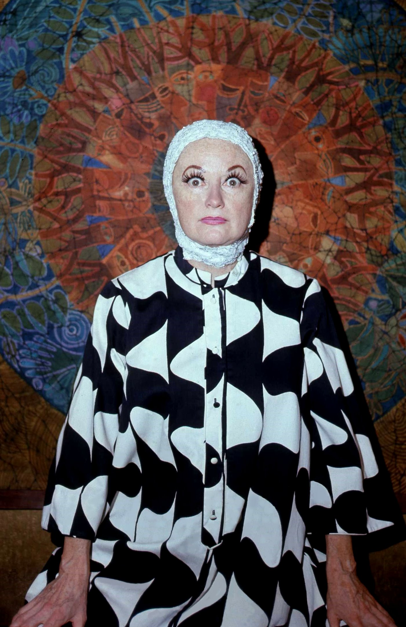 Phyllis Diller